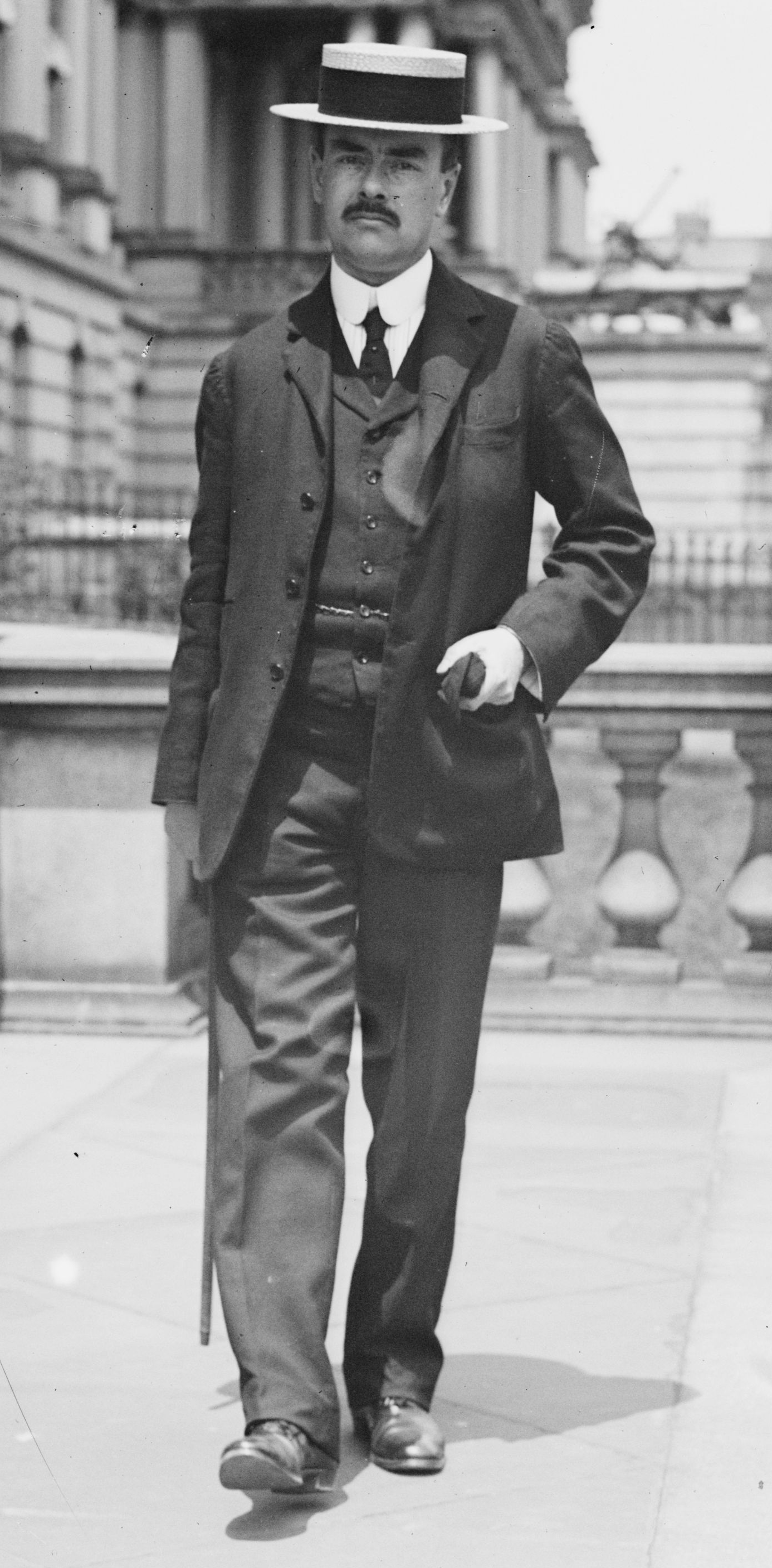 Henry Percival Dodge circa 1915